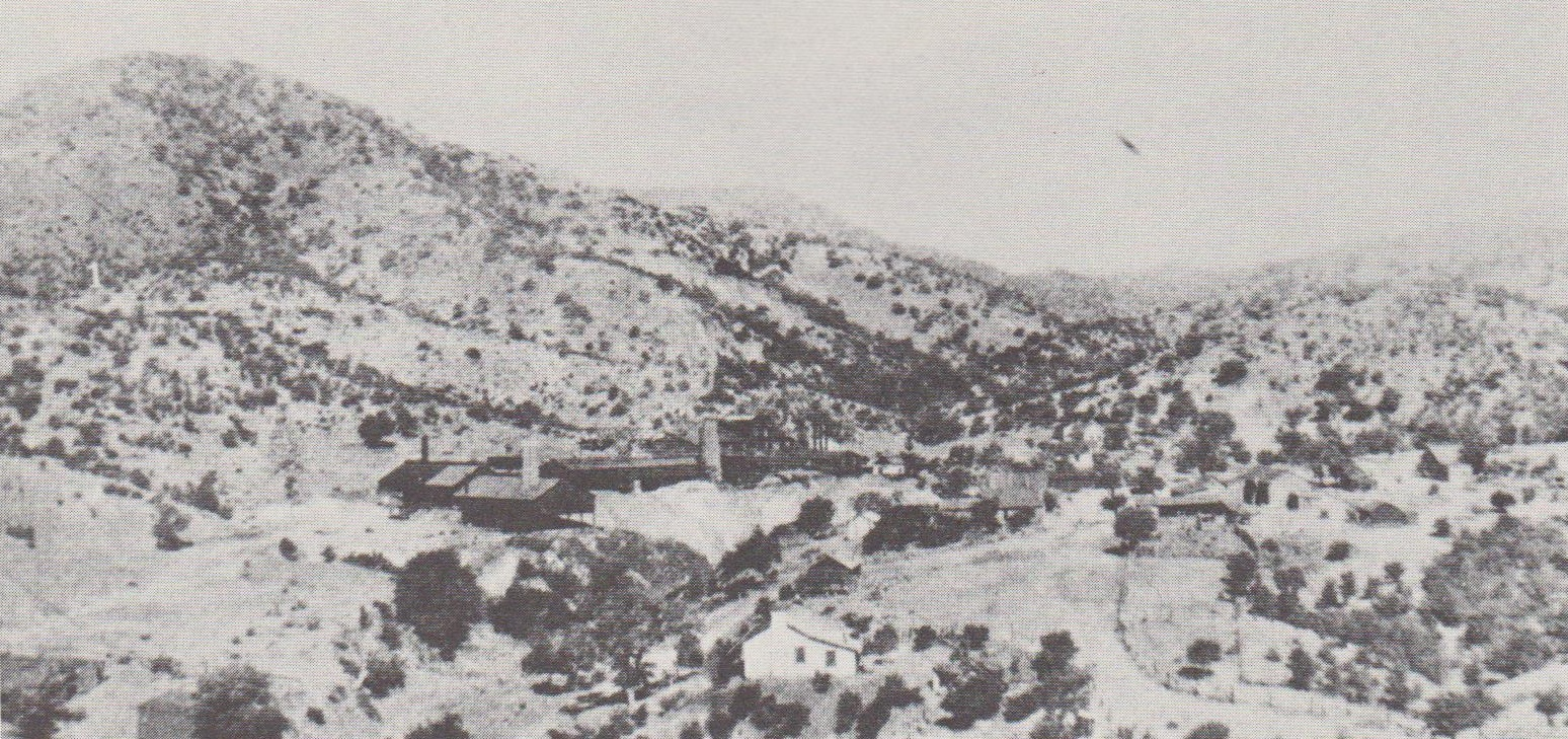 Washington Camp, Arizona, facing west in 1909. The large mine buildings is the Duquesne Reduction Plant. Scan from "Ghost Towns of Arizona" (1969) by James E. and Barbara H. Sherman, pg 168, ISBN 0806108436